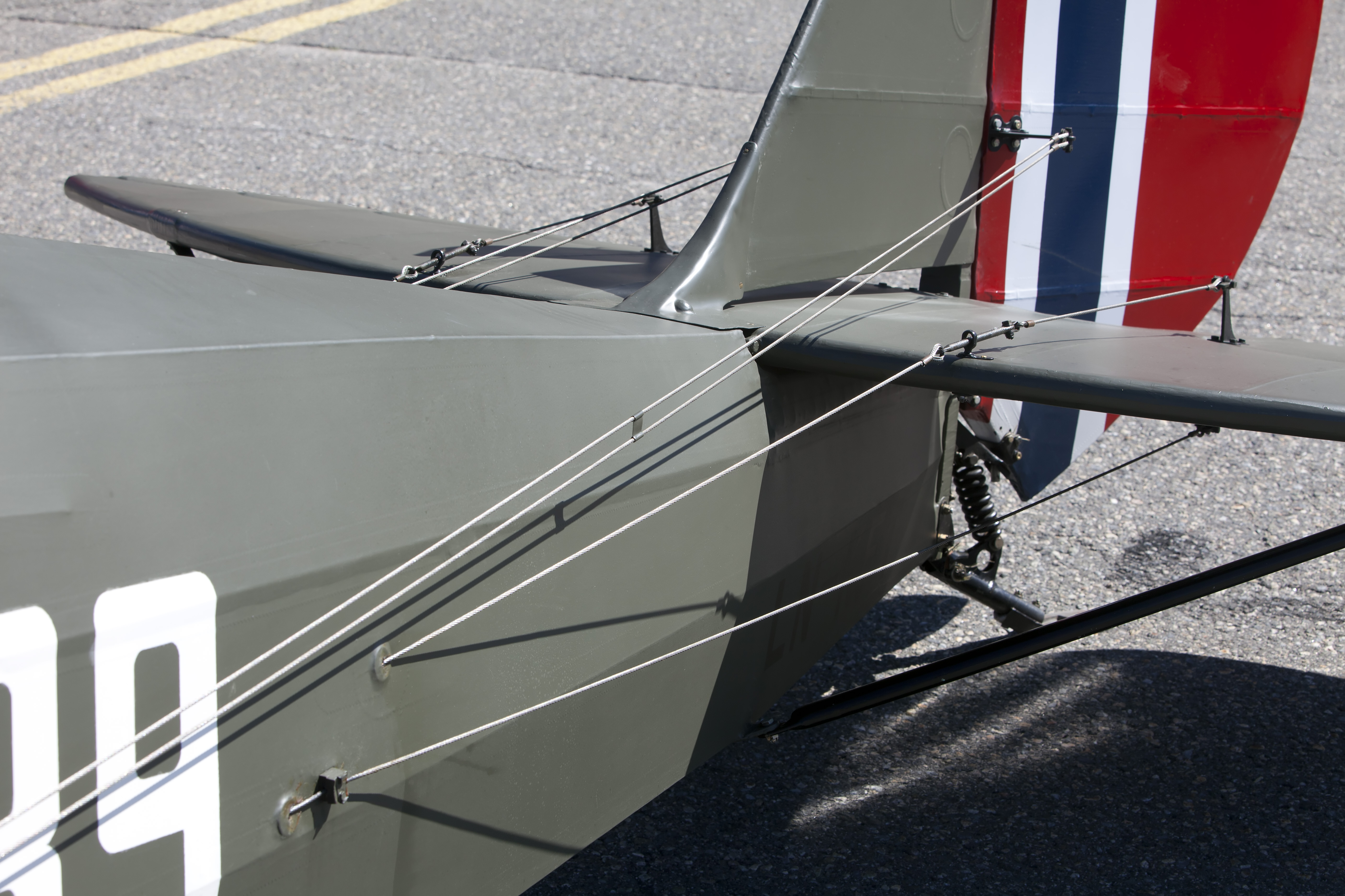 Manual flight controls deHavilland DH 82A Tiger Moth